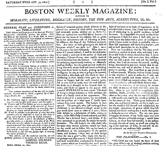 From: Boston Weekly Magazine, no.1 (Boston: Gilbert & Dean, 1802)